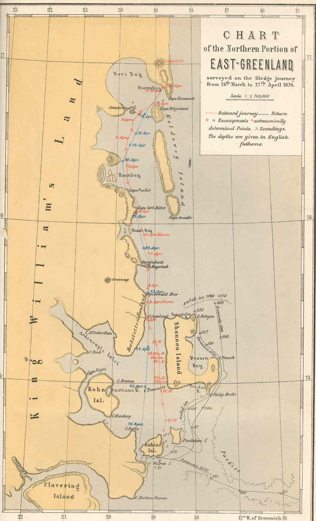 Chart of the Northern Portion of East-Greenland, Surveyed on the Sledge Journey from 24th March to 27th April 1870 Subject: Greenland--Maps Geographic Subject: Greenland Tag: Coasts, Polar